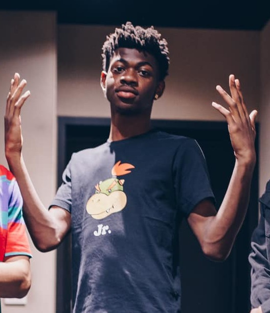 Lil Nas X in the studio.